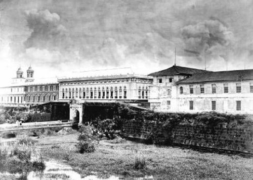 Santa Lucia Gate, one of the entrances to the walled city of Intramuros, Manila. Behind the gate is the Augustinian Provincial House (center) and the Augustinian monastery (right). To the left of the Provincial House is Ateneo Municipal, and to its left are the twin bell towers of San Ignacio Church.